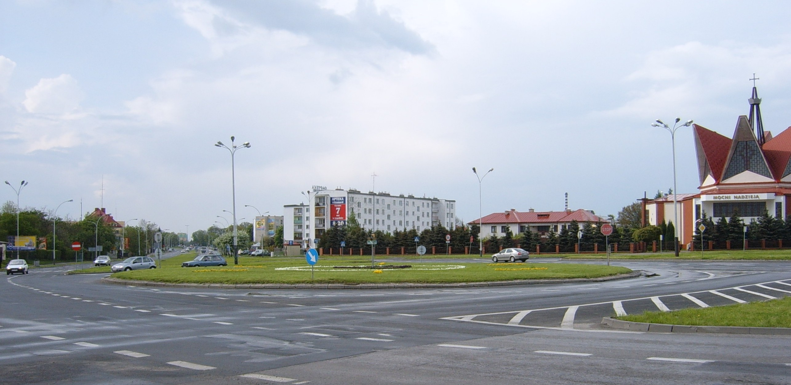 Stefan Wyszyński roundabout in Zamość, Poland